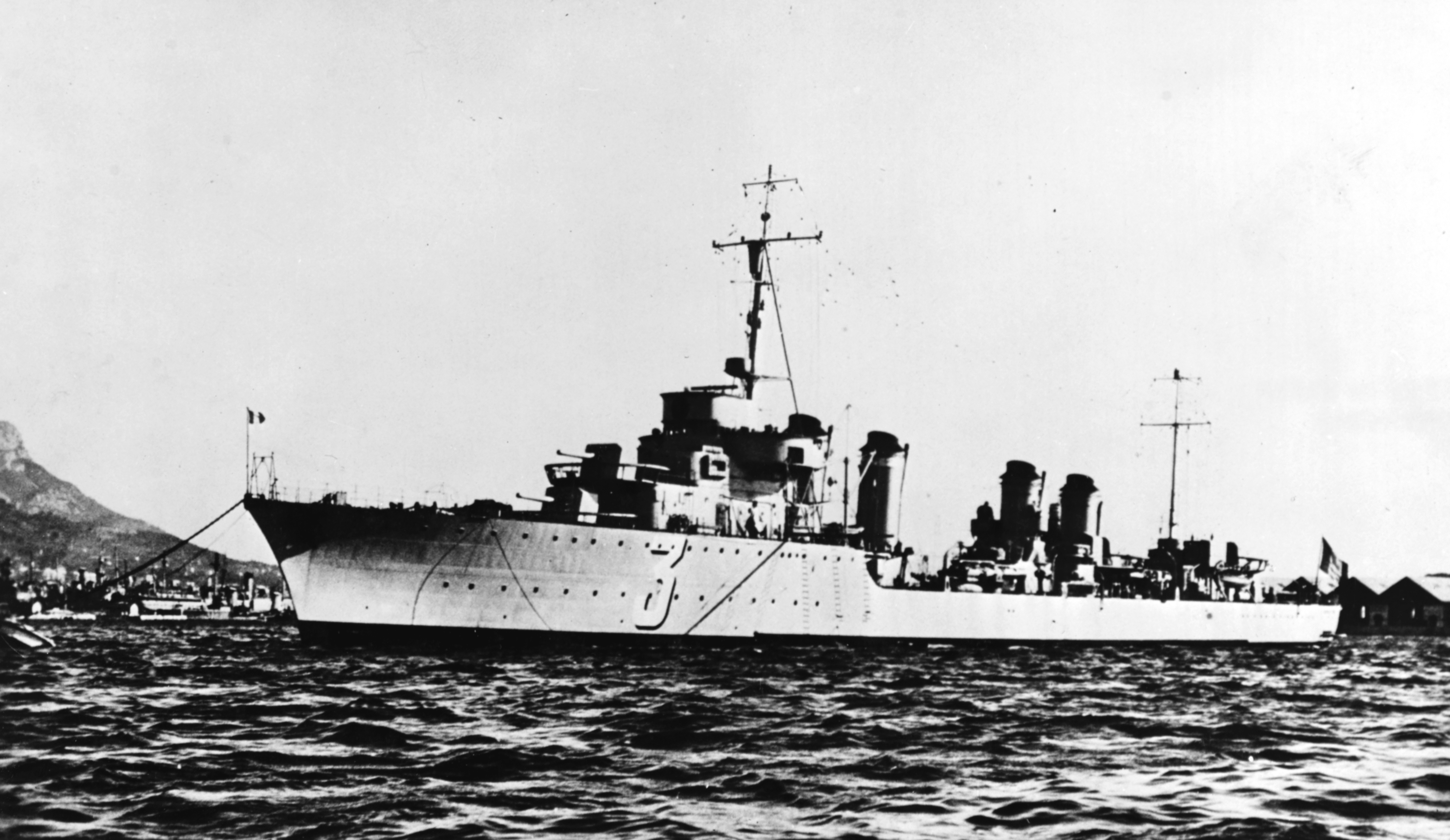 The French destroyer Chevalier Paul moored to a buoy, circa 1934-1935.